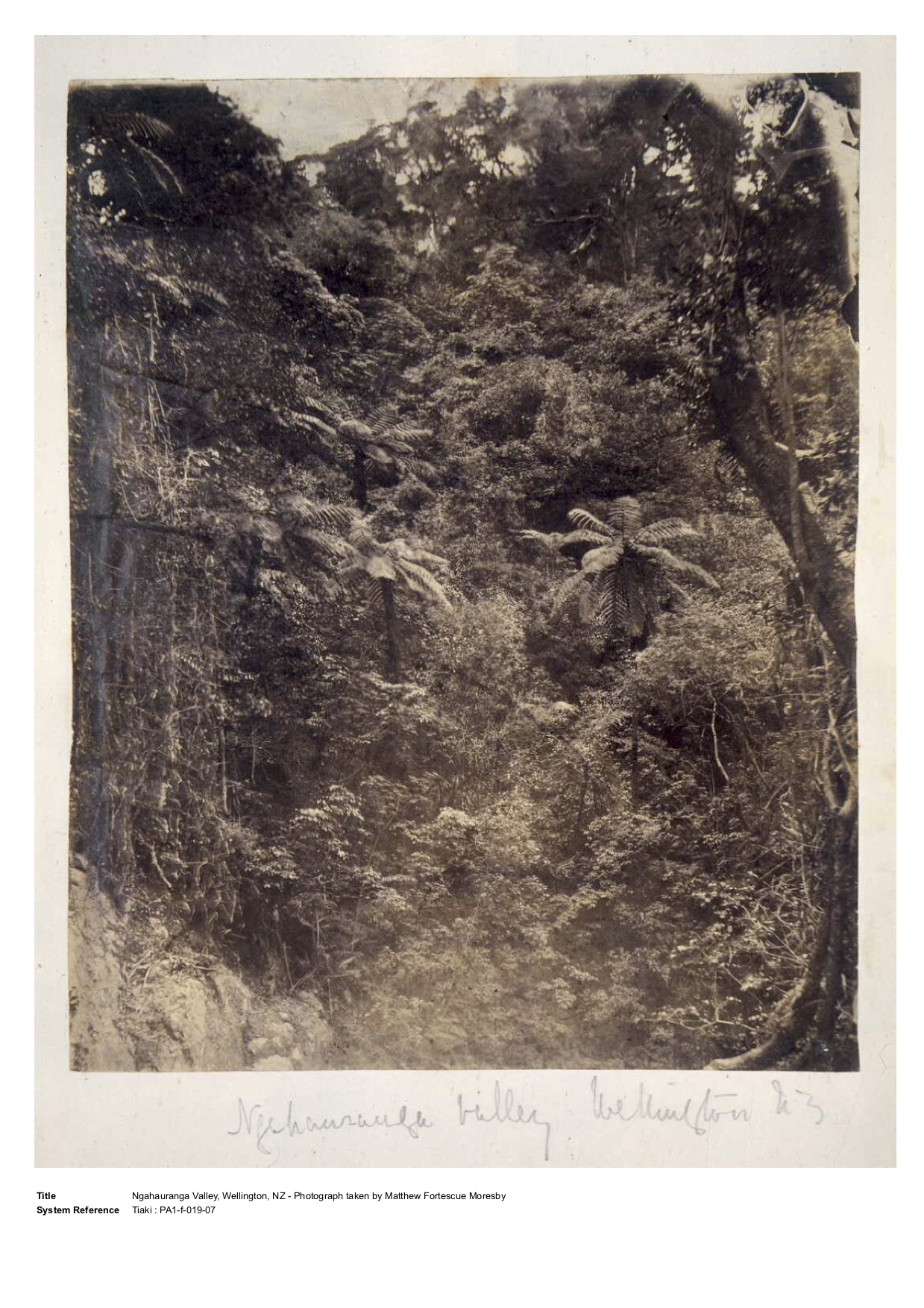 New Zealand native bush on the site of the capital's motorway access photographed in 1859. The map location within the Ngauranga stream's valley is approximate, the precise location is unknown. Māori: Ko te tipu Maori i runga i te pae o te huarahi o te whakapaipai i te whakaahua i te tau 1859